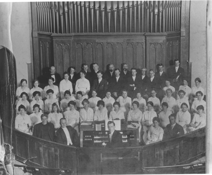 Choir of the Richmond Hill Presbyterian Church